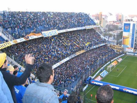 Boca Juniors soccer match in Buenos Aires.